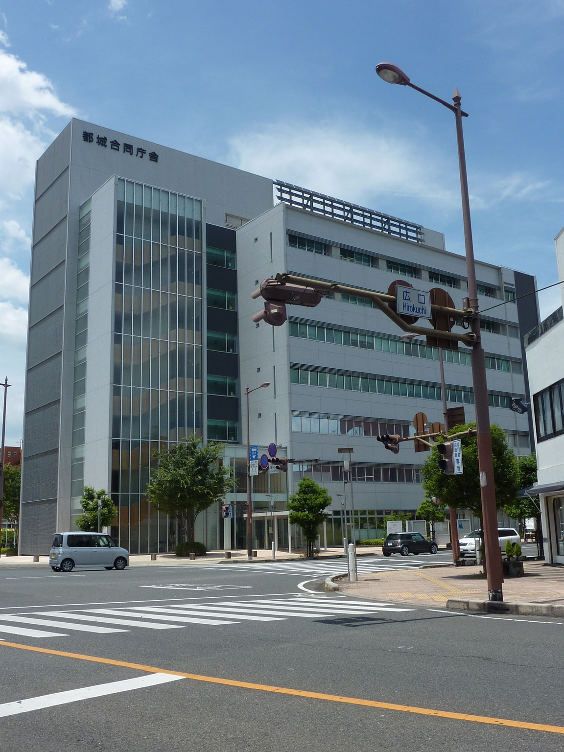 The Miyakonojo Combined Government Office is in Central Miyakonojo City, Miyazaki Prefecture, Japan.